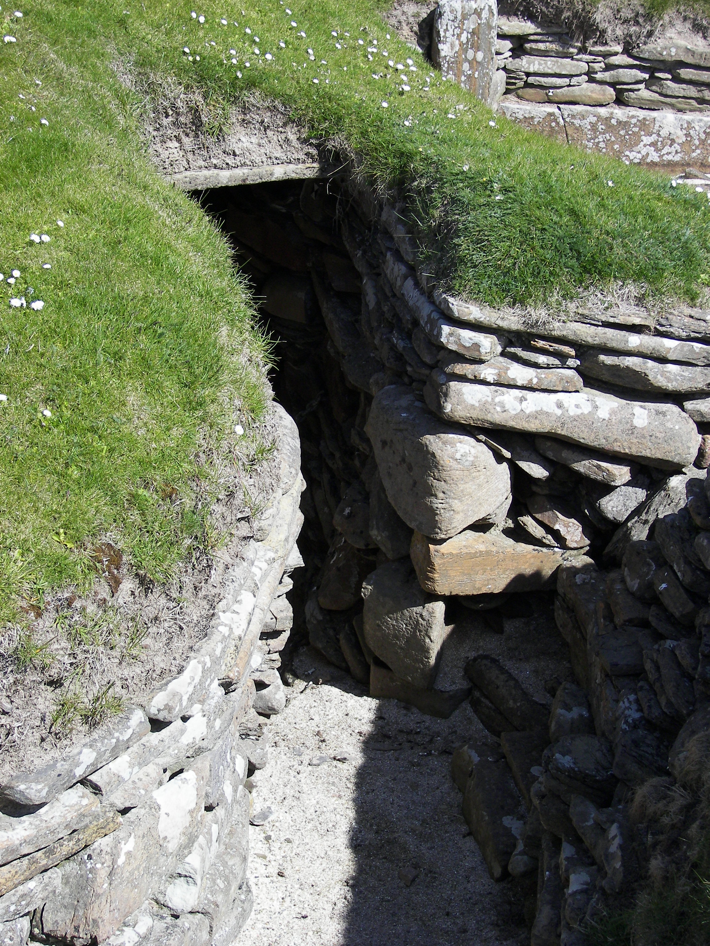 Passageway through Skara Brae.